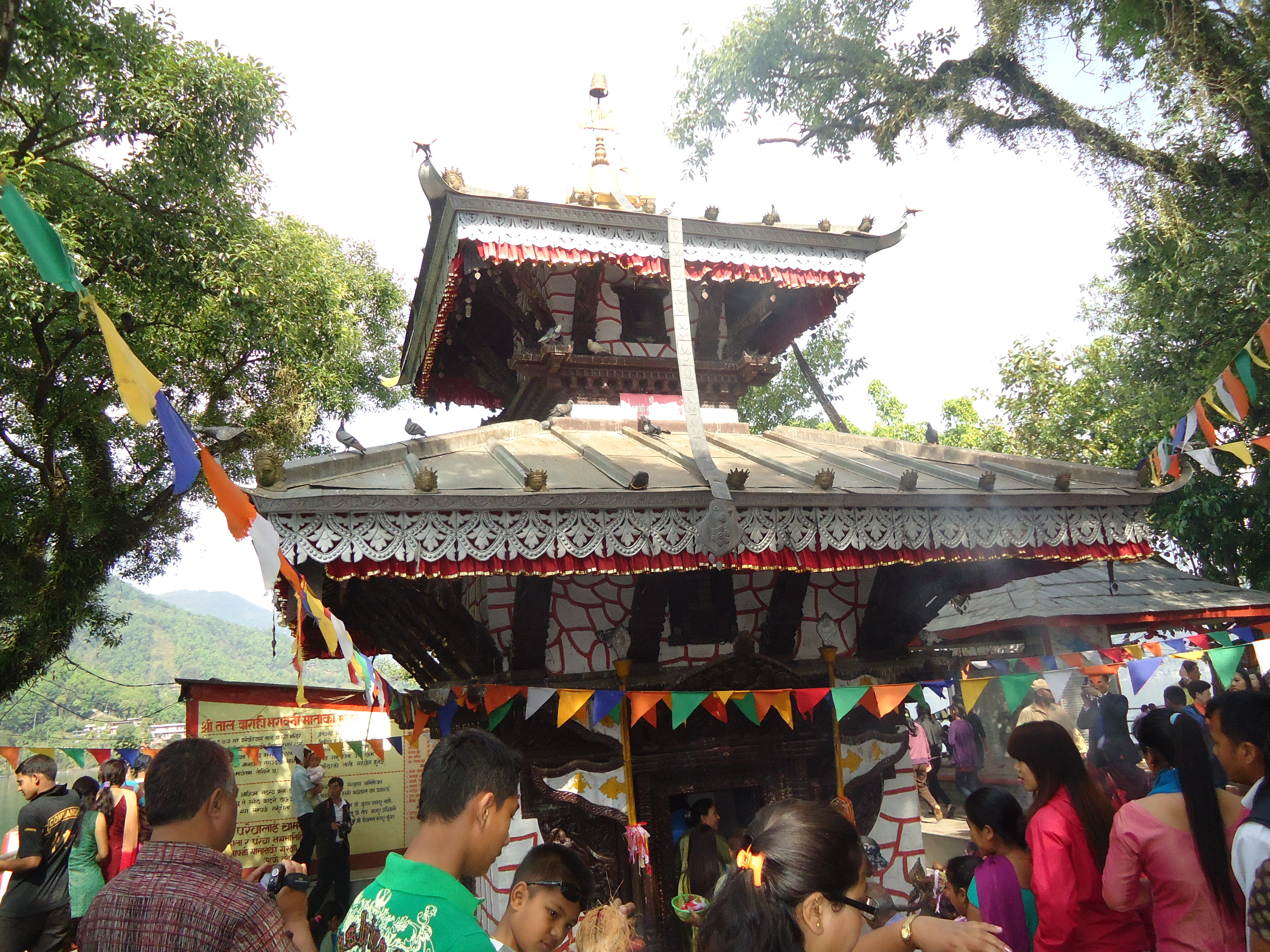 This is an image of Tal Barahi Temple.